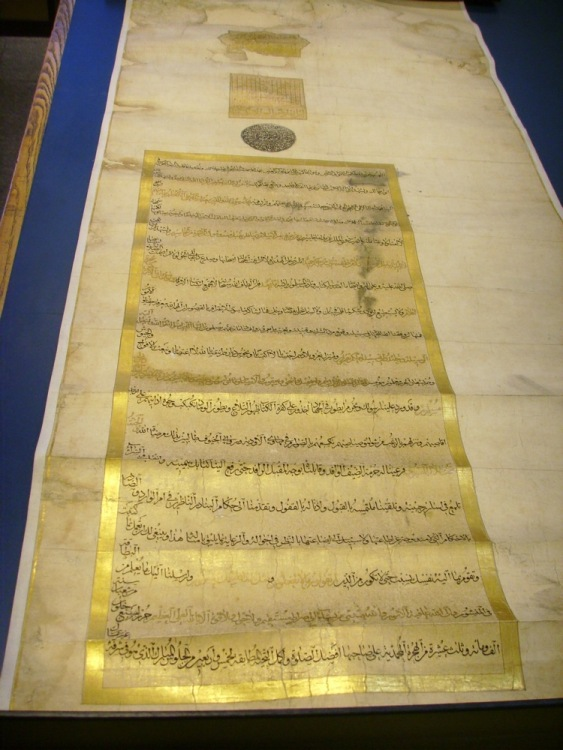 A photograph of Oriental MS 6286, a letter from Emperor Aurangzeb to William III, dated 7 Sha'ban 1113 AH (7 January 1702) Shown mounted and prepared for exhibition. Digital image provided by the Visual Arts Collections, British Library.